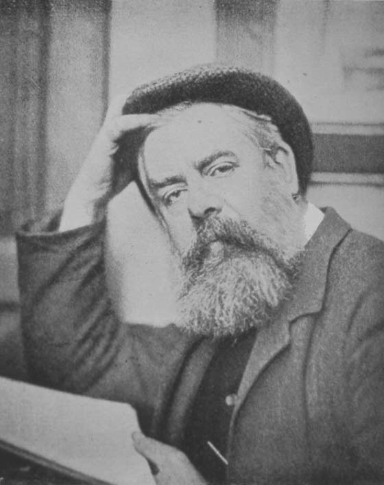 Self-portrait of Frederick Hollyer, from the journal Photograms of '95. London: Dawbarn & Ward, 1895 About 1890. Platinum print, width 9.5 cm x height 7.7 cm, NAL Pressmark: PP.40.U.